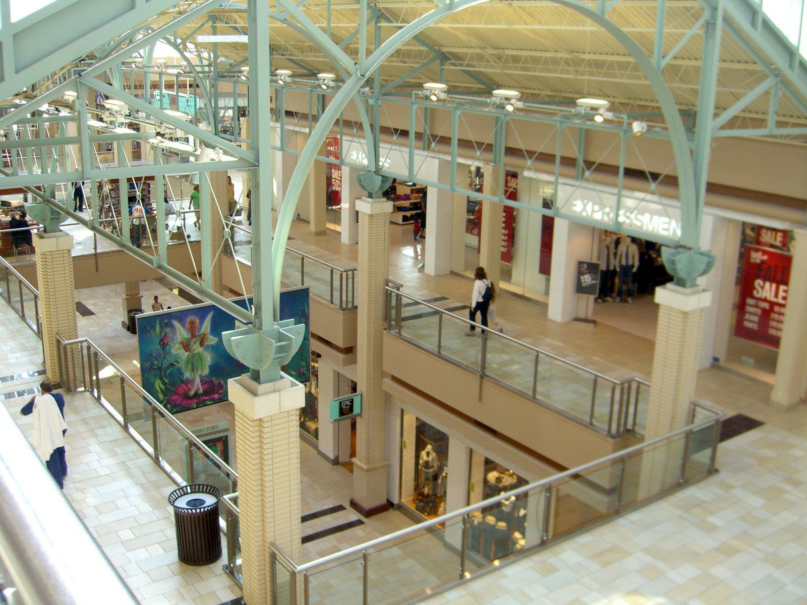 The interior of the Newport Centre mall, as seen on September 28, 2006. This photo was created by Luigi Novi. It is not in the public domain, and use of this file outside of the licensing terms is a copyright violation.